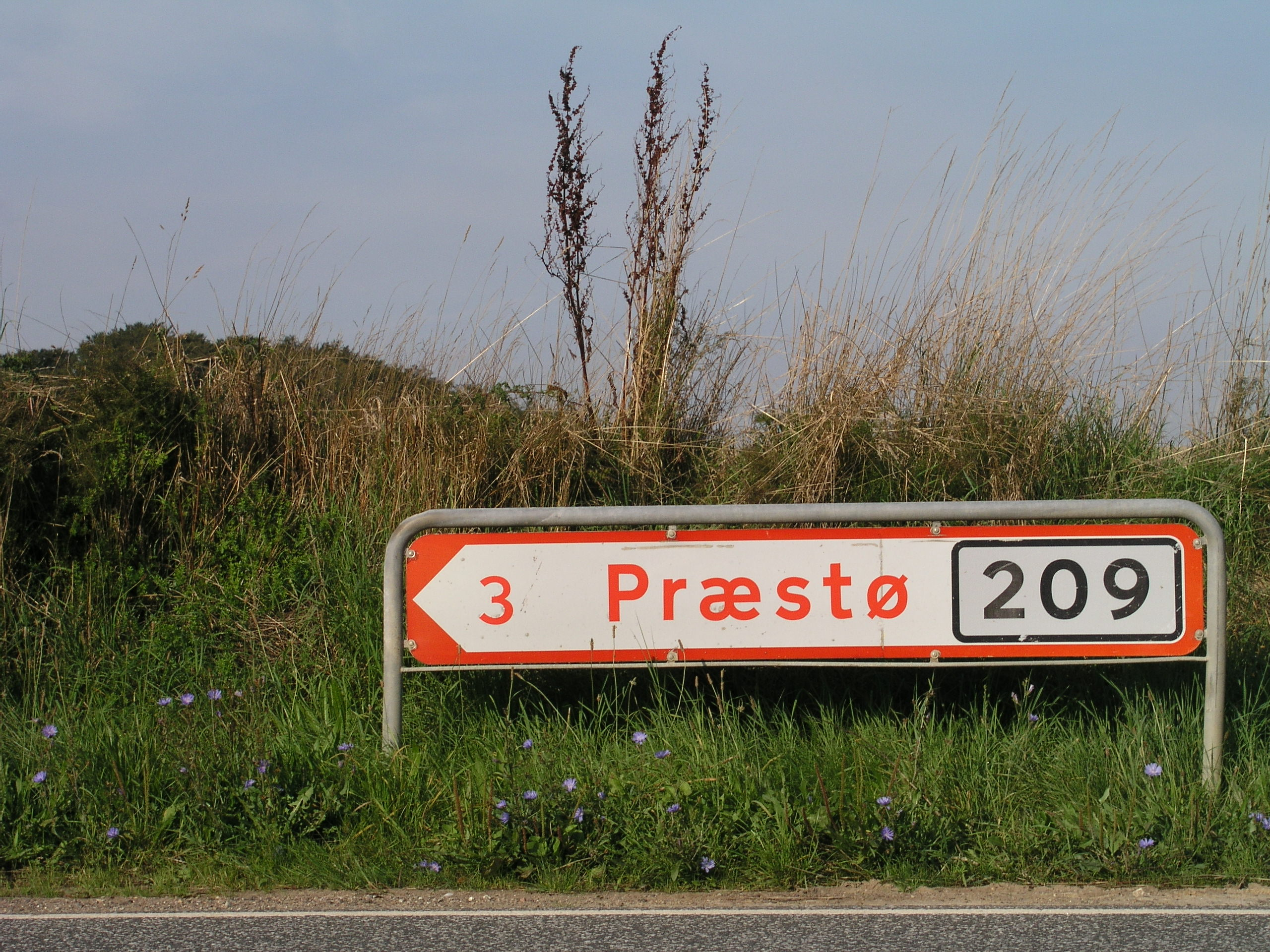 Sign on secondary route 209, 3 km from Præstø in Denmark